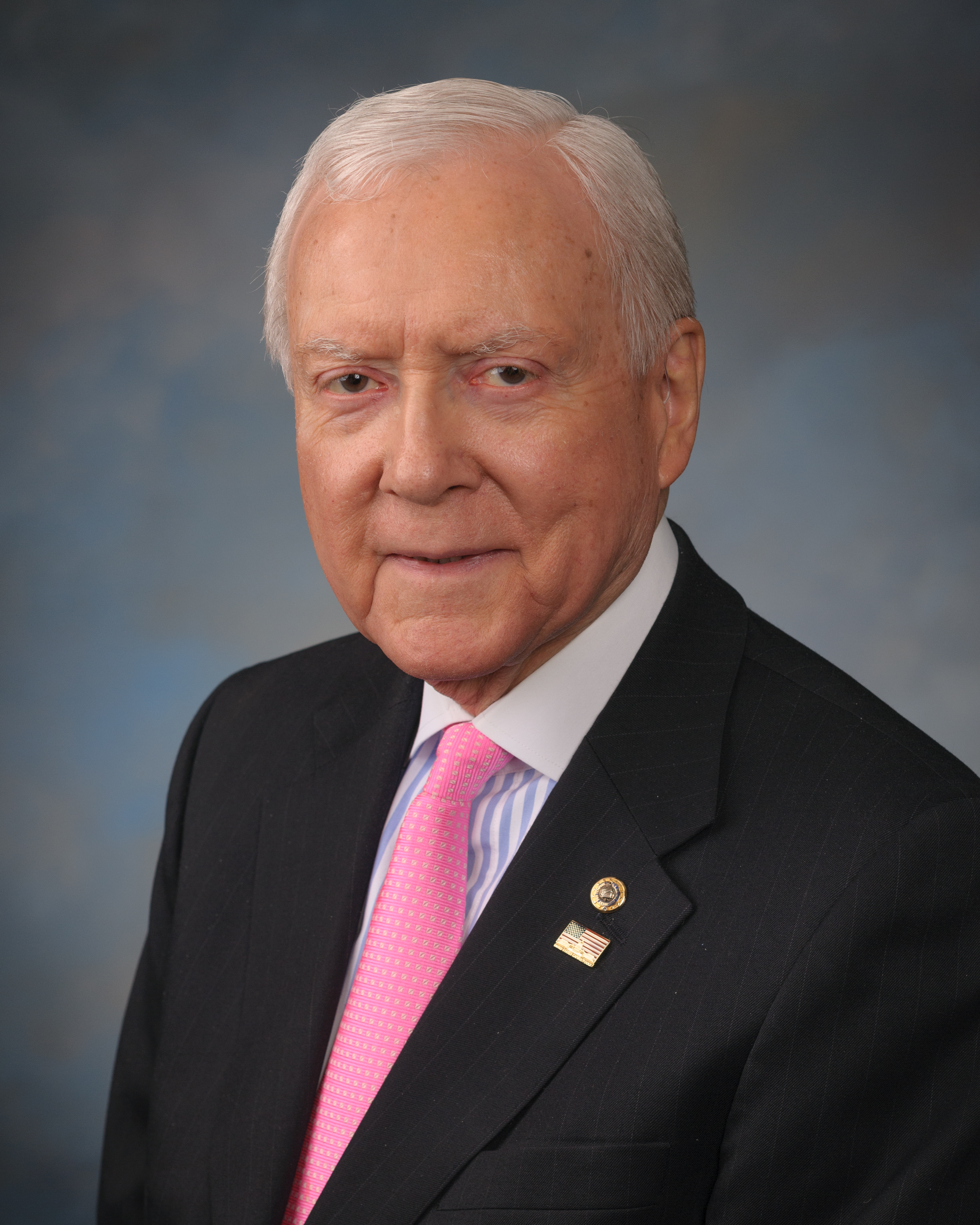 Orrin Hatch, U.S. Senator from Utah, official photo 2015